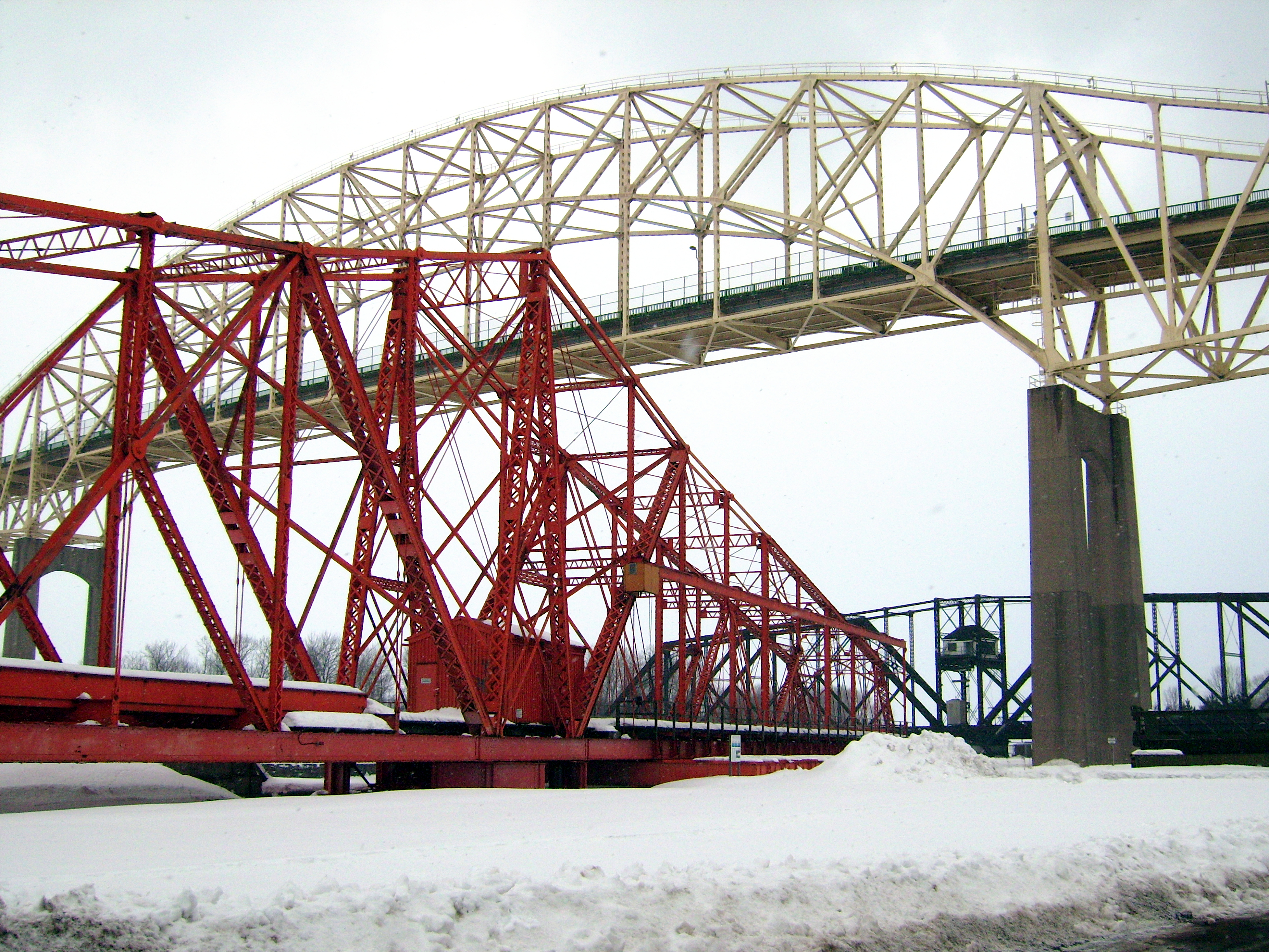 Emergency swing dam at the Sault Ste. Marie Canal, with the International Bridge (top) and rail bridge (bottom right), Sault Ste. Marie, Ontario.